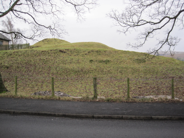 Motte of Bellingham Castle. A mound at the east end of Bellingham is all that remains of the former motte and bailey castle. It was probably built in the 12th century by the Bellingham family and is likely to have been replaced by a stone castle in the 13th century.